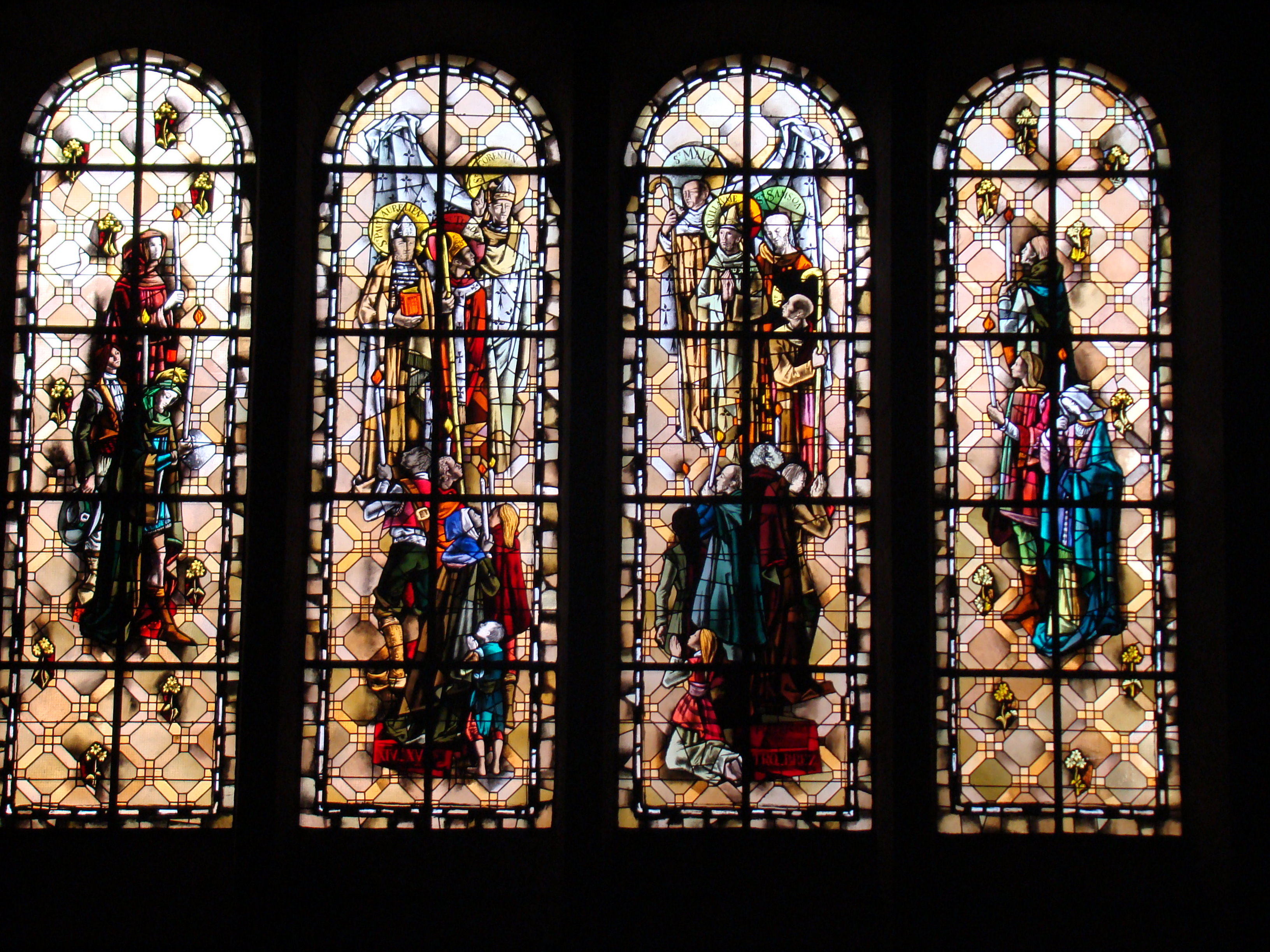 Saint Vincent cathedral - intérieur (Saint-Malo, France)